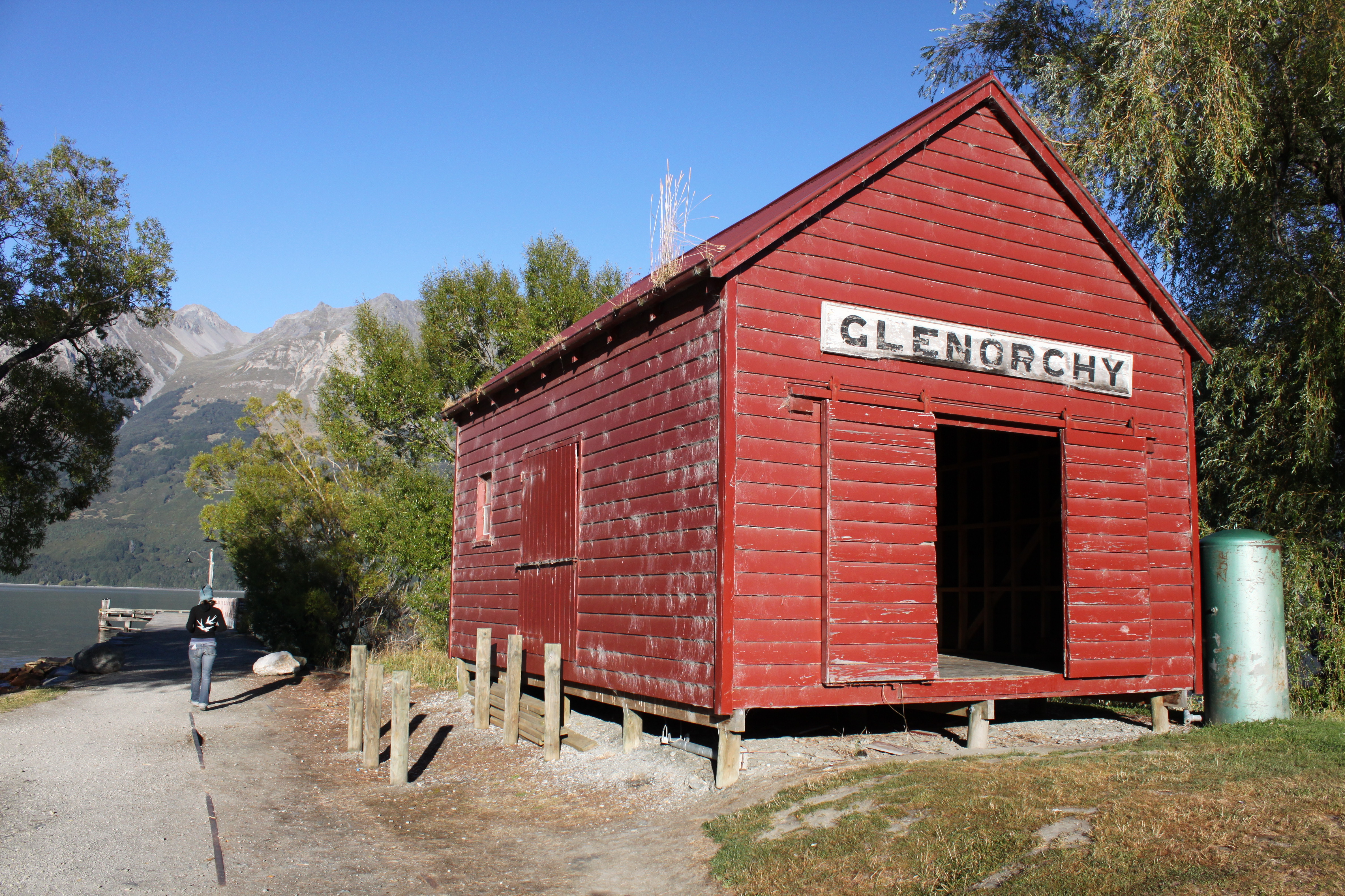 Enjoying Lake Wakatipu before setting out to hike the Rees-Dart Track.